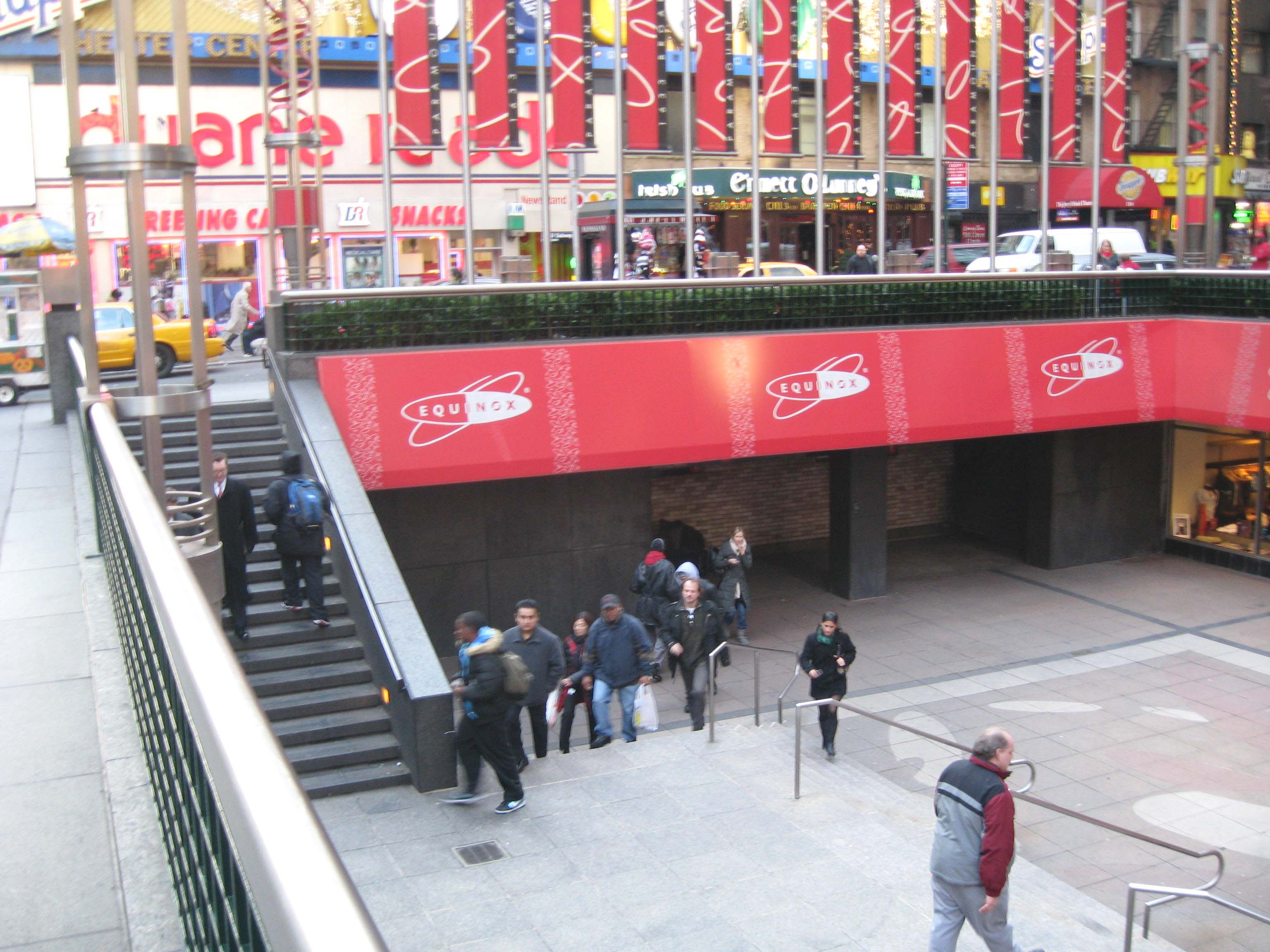 Looking southwest from Broadway as passengers exit the southbound en:50th Street (IRT Broadway – Seventh Avenue Line) 1 train station in the southern sunken courtyard of Paramount Plaza on a sunny afternoon. See File:Mars 2112 jeh.JPG for the northern courtyard.